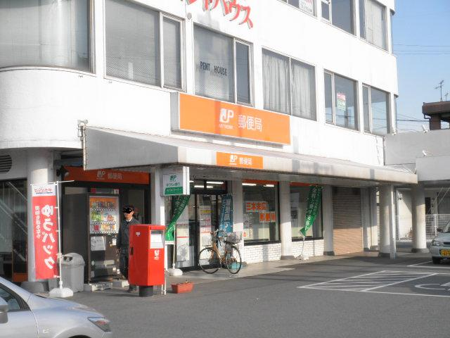 Miki Suehiro post office